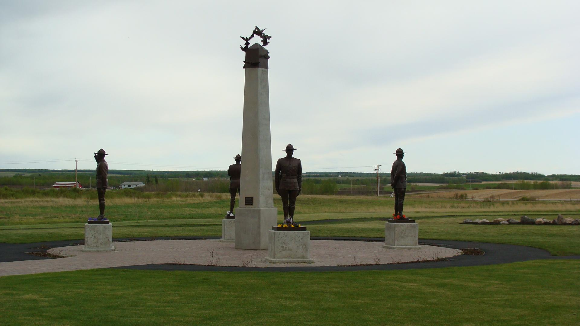 The RCMP Memorial in Fallen Four Memorial Park in Mayerthorpe, Alberta, Canada.The Mayerthorpe Incident occurred on March 3, 2005 on the property of James Roszko 11 km north of Rochfort Bridge, northwest of Edmonton near the town of Mayerthorpe, in the Canadian province of Alberta. With a Heckler & Koch 91, Roszko shot and killed Royal Canadian Mounted Police Constables Peter Schiemann, Anthony Gordon, Lionide Johnston, and Brock Myrol as the officers were executing a property seizure on the farm. It was the worst one-day loss of life for the RCMP in 100 years.